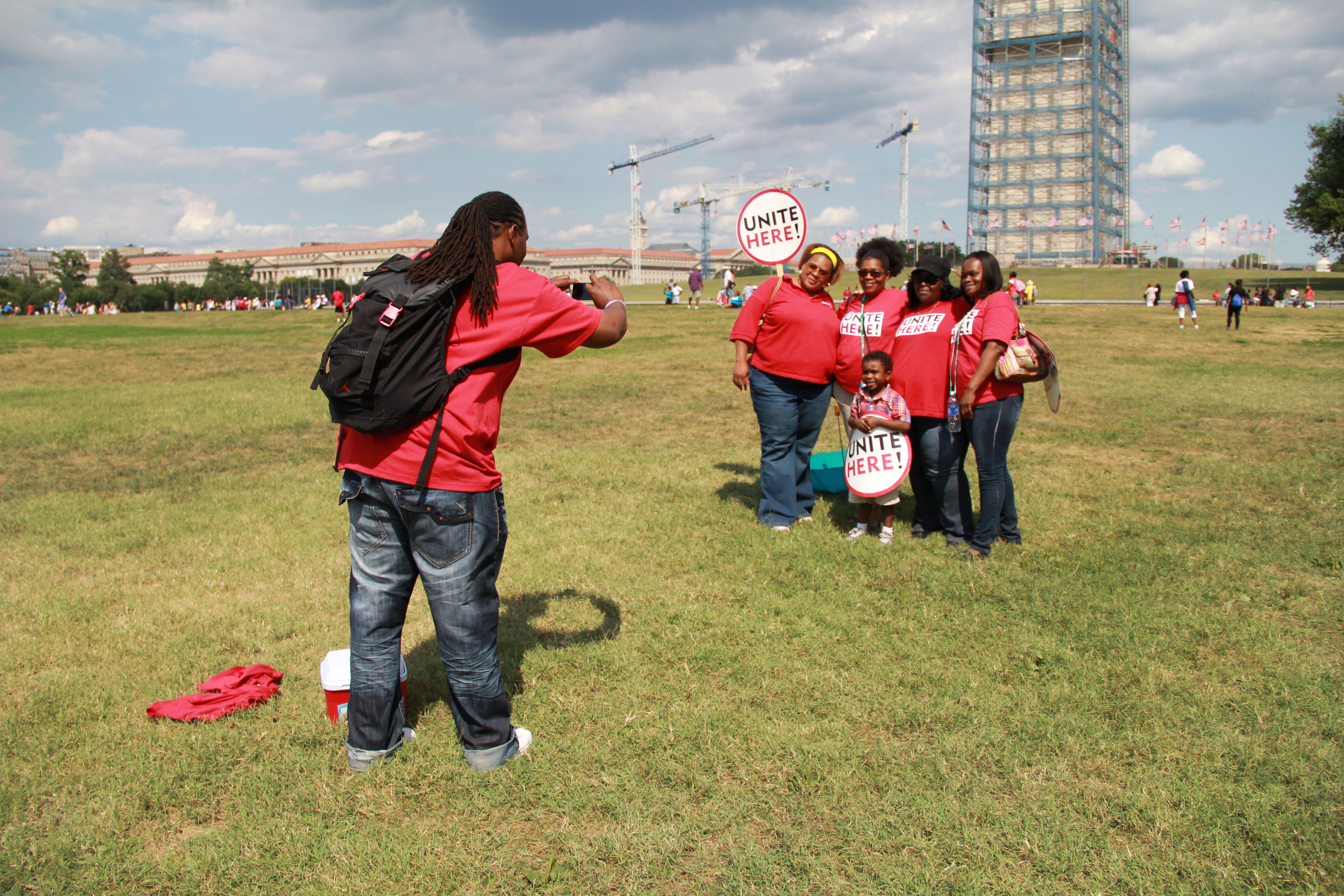 Unite Here - Photographer and group in red t shirts by Washington Monument - 50th Anniversary of the March on Washington for Jobs and Freedom